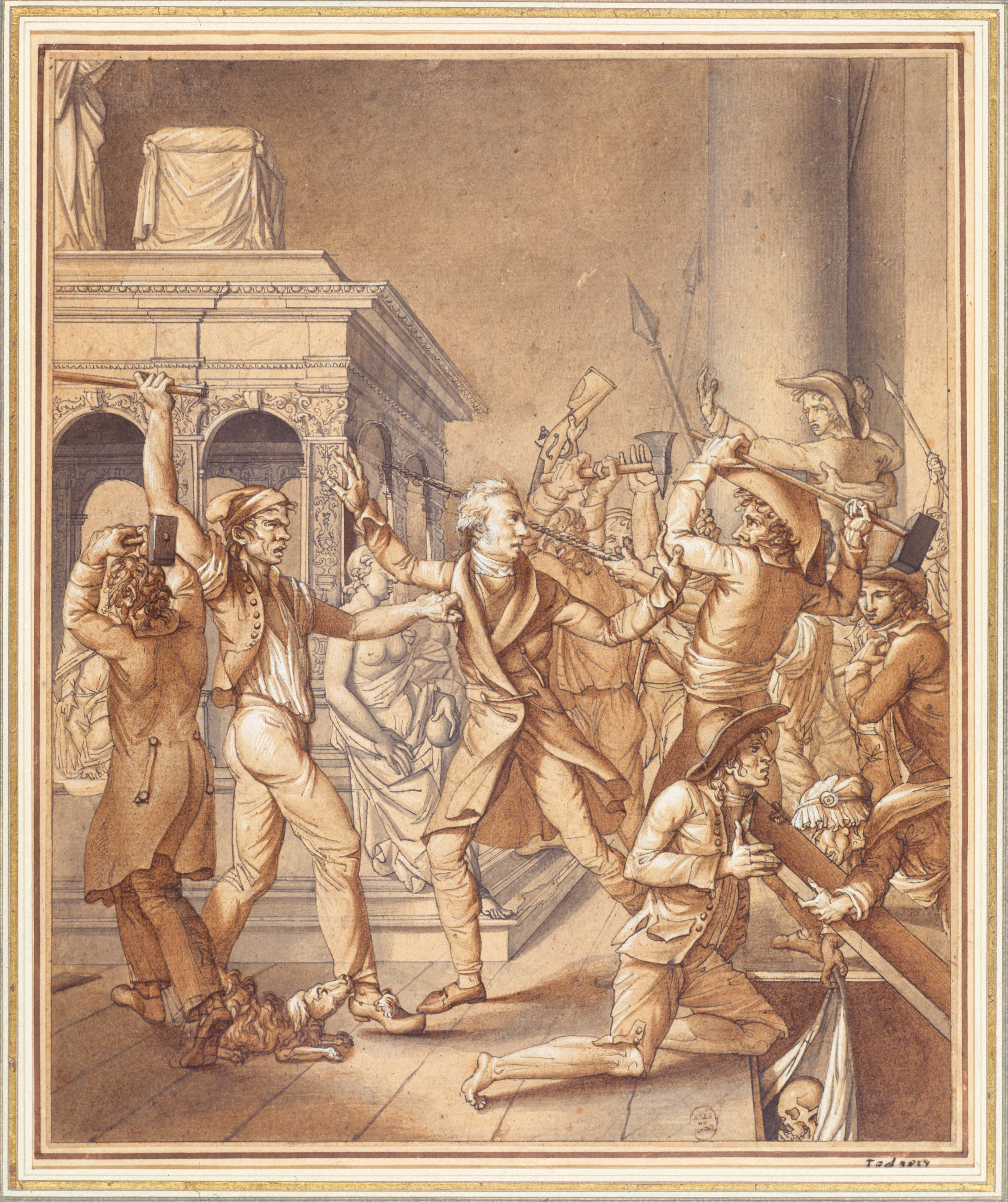 Alexandre Lenoir opposes the destruction of the tomb of Louis XII in Saint Denis, by Pierre Joseph Lafontaine.